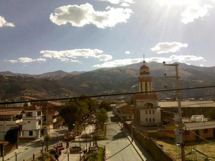 Alameda Grau